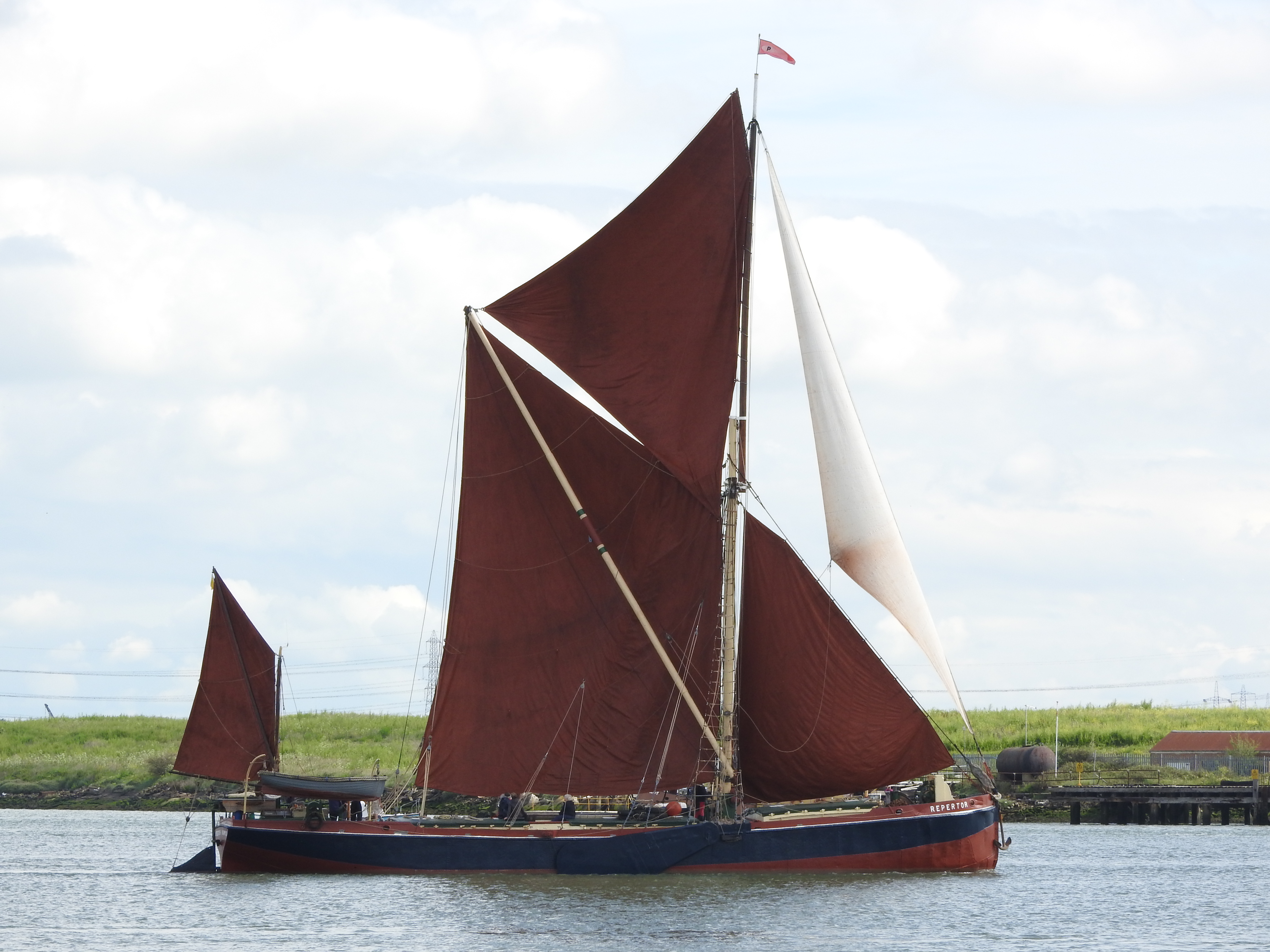 Barges competing in the 109th Medway Barge Sailing match, viewed from the shore at Gillingham Pier.